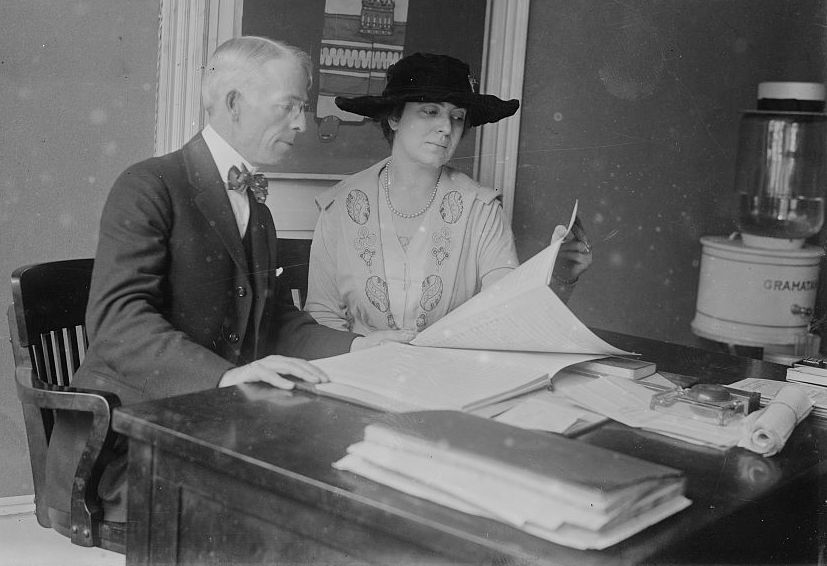 Arthur Nevin & Francesca Peralta.